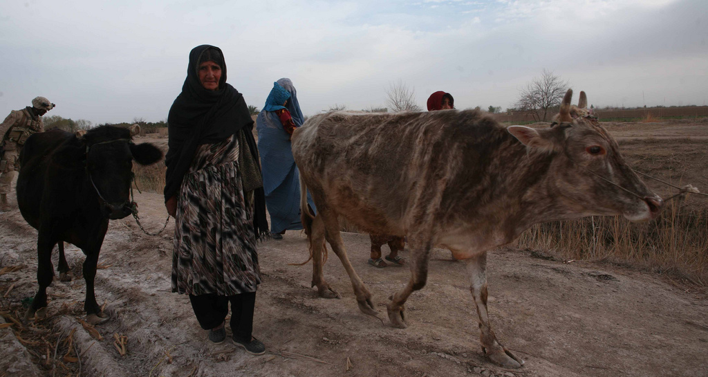 Afghan civilians moving cattle during Operation Moshtarak in Marjeh, Afghanistan on .